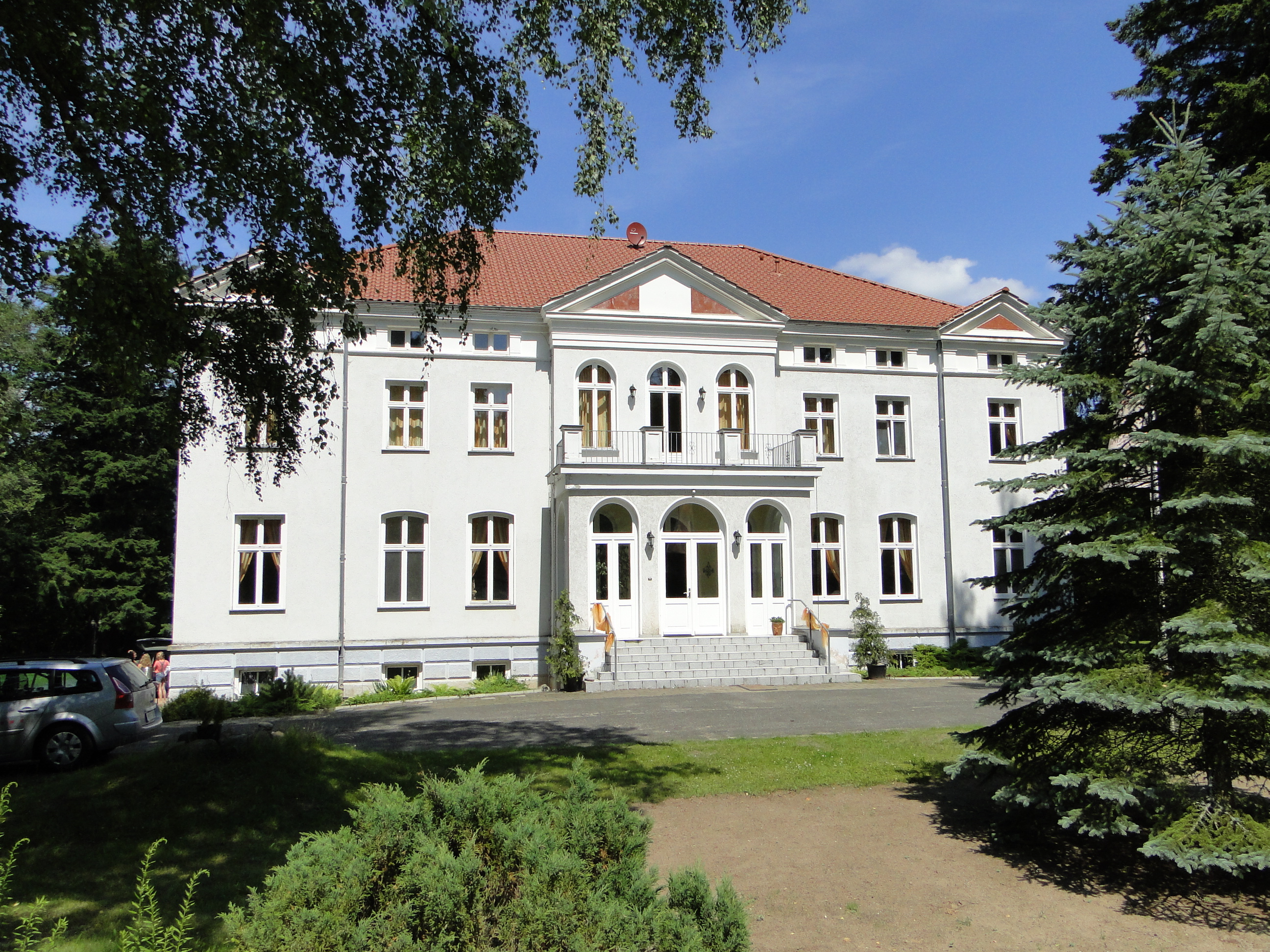 Former manor house in Neu Sammit, district Güstrow, Mecklenburg-Vorpommern, Germany